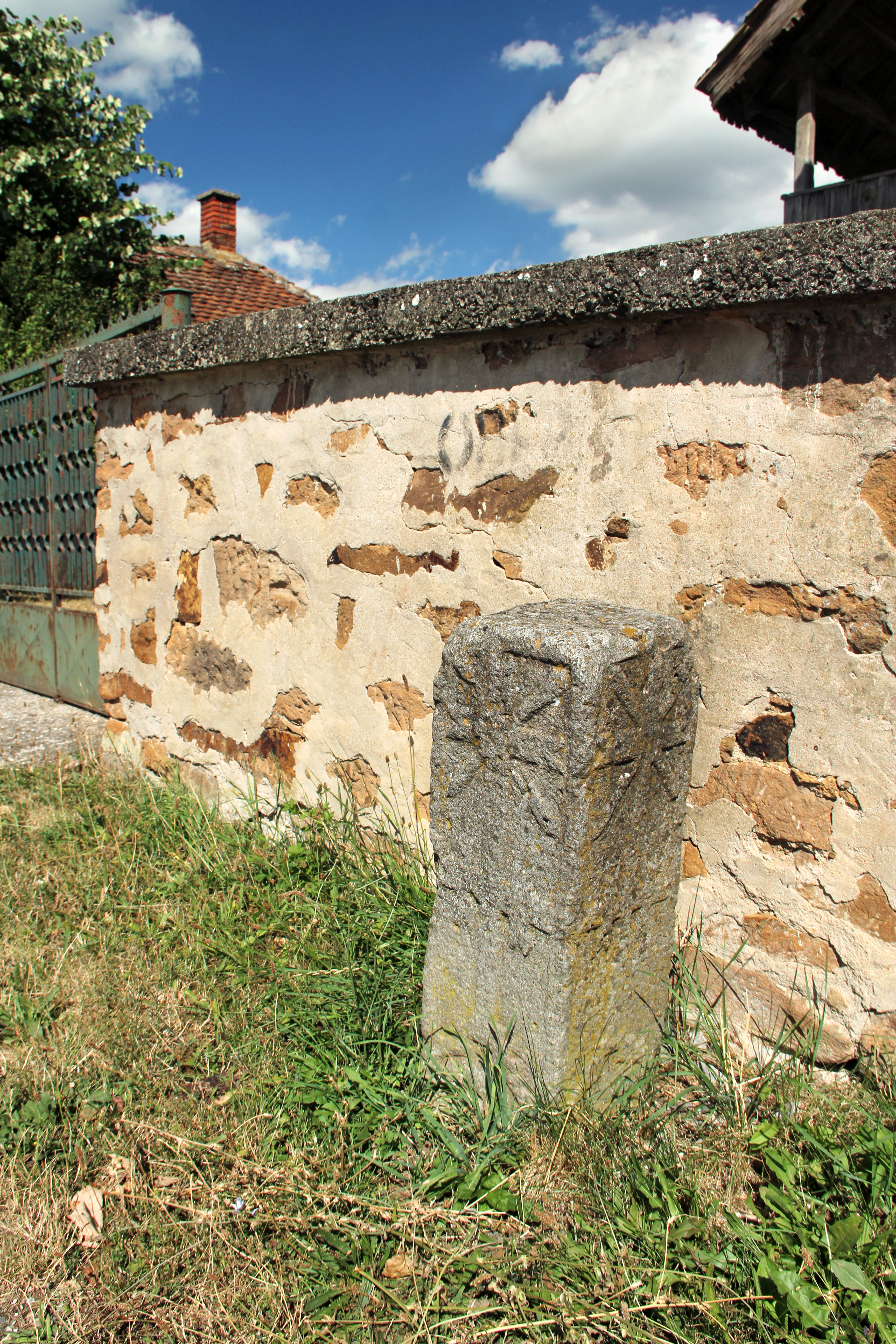 A roadside tombstone at the crossroad of the village Donja Crnuca, the municipality of Gornji Milanovac, Serbia.